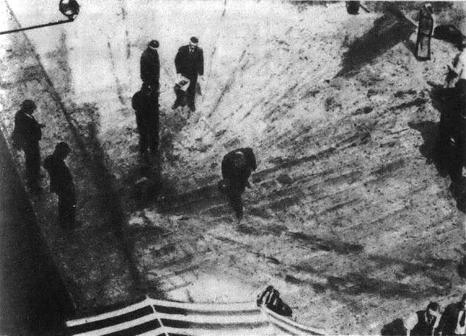 Place of assassination of Yevhen Konovalets